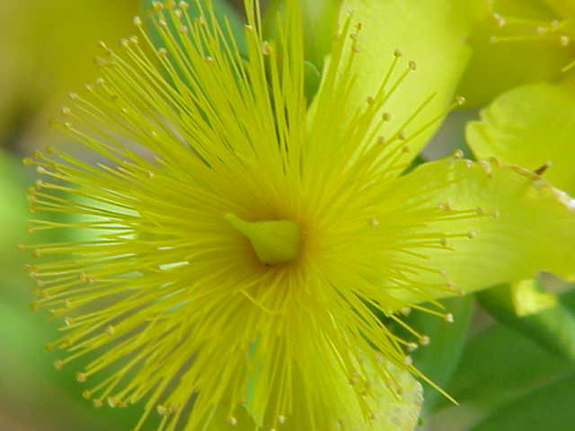 Species: Hypericum kalmianum Family: Hypericaceaa Image No. 1